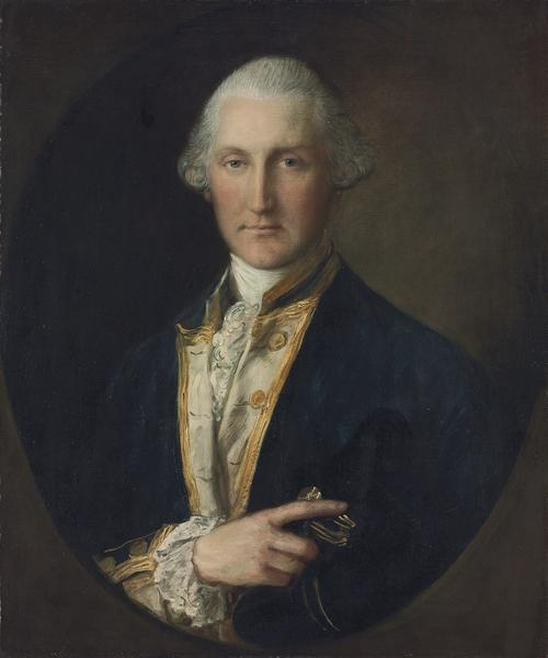 Portrait of Lord William Campbell, the last royal governor of the Province of South Carolina.